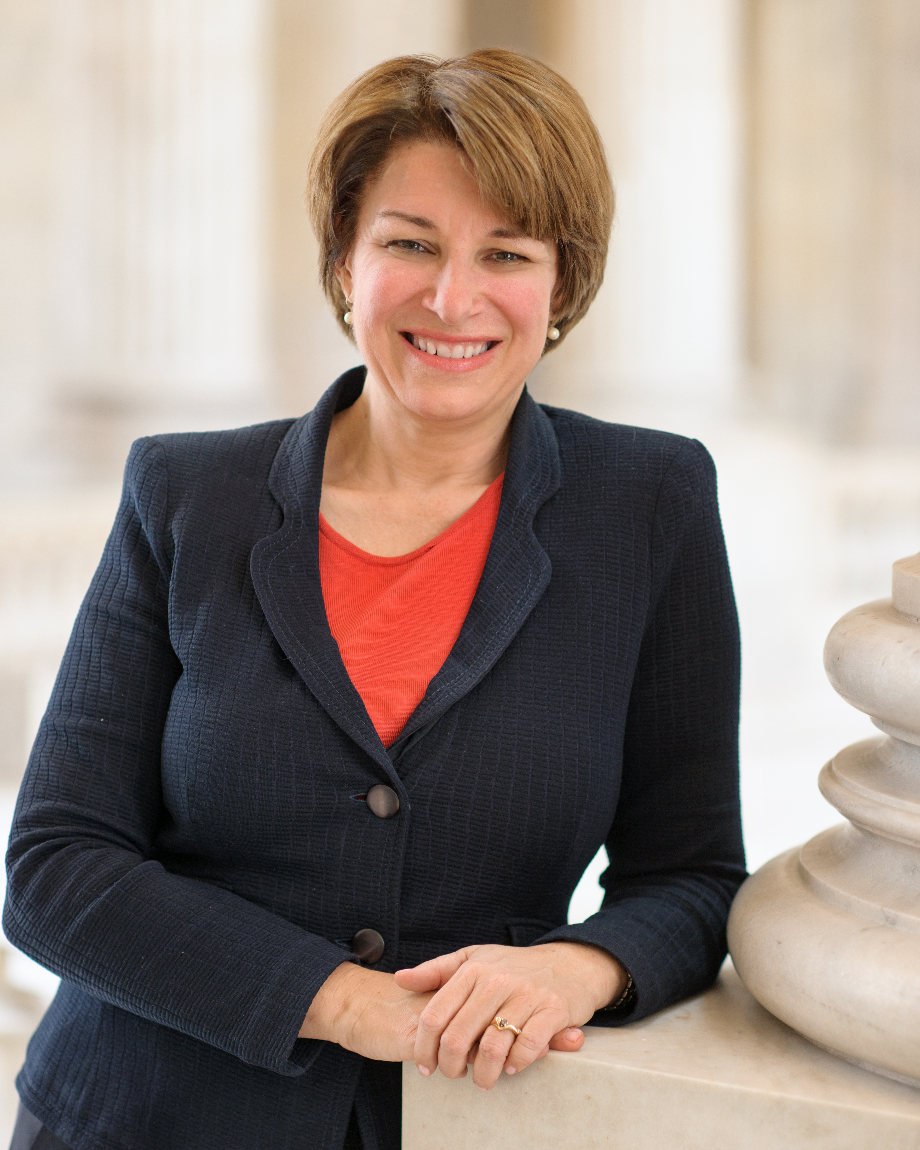 Official portrait of U.S. Senator Amy Klobuchar (D-MN).